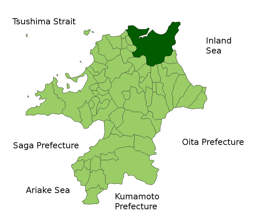 Location Map of Kitakyushu in Fukuoka Prefecture, Japan